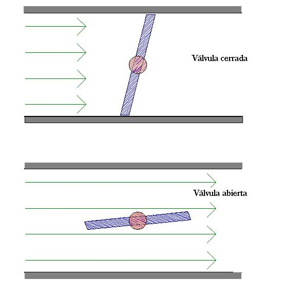 Butterfly valve